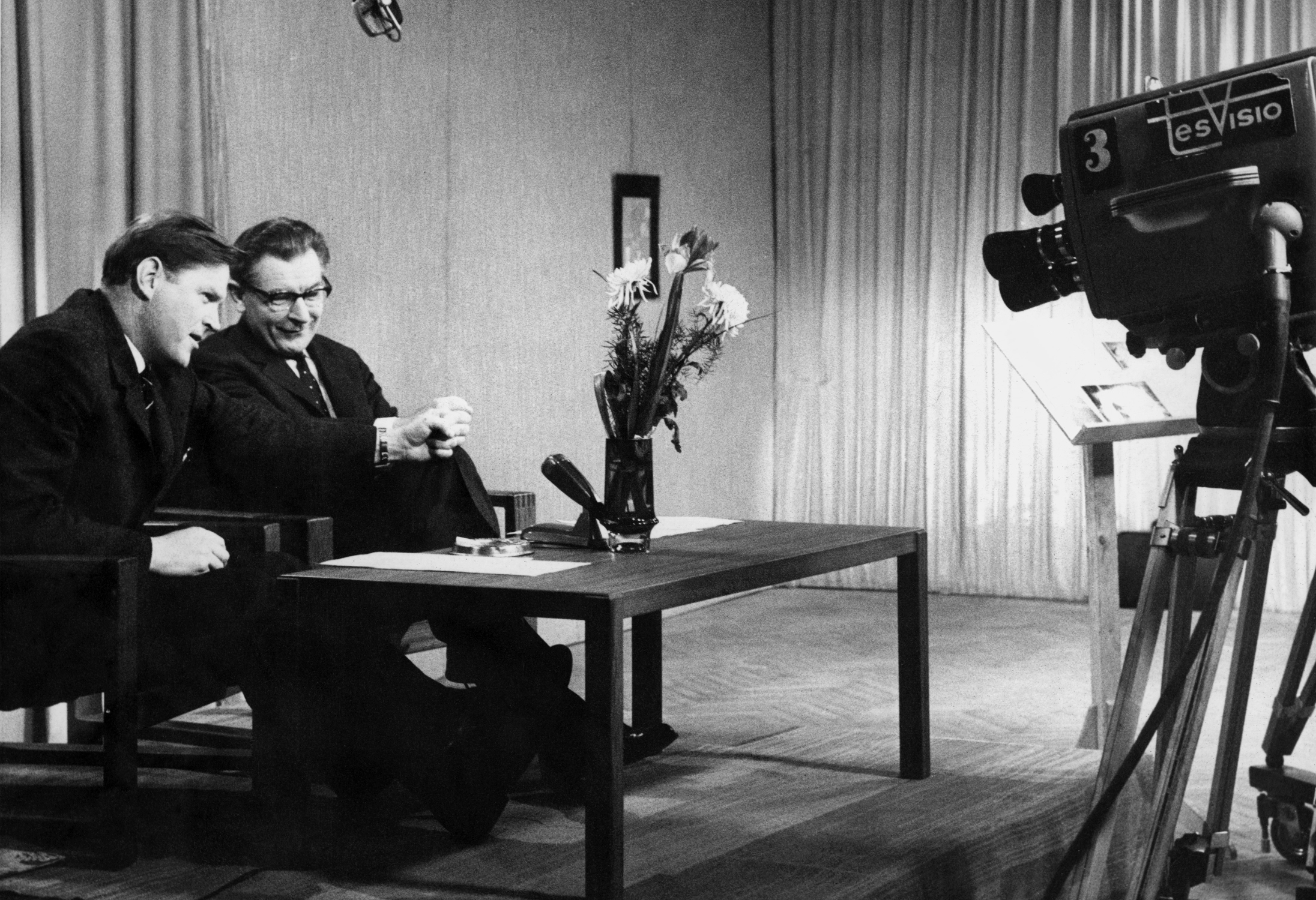 Tesvisio, 1957-1965, the first television channel in Finland. Current affairs programme "Our minister today". Presenter Eino S. Repo and minister Onni Närvänen in the studio. Finnish Broadcasting Company bought Tamvisio in 1964 and Tesvisio in 1965 and together the channels merged as Yle TV2. Tesvisio. Tesvision Ratakadun studio. Maisteri Eino S. Repo ja ministeri Onni Närvänen "Ministerimme tänään" -ohjelmassa